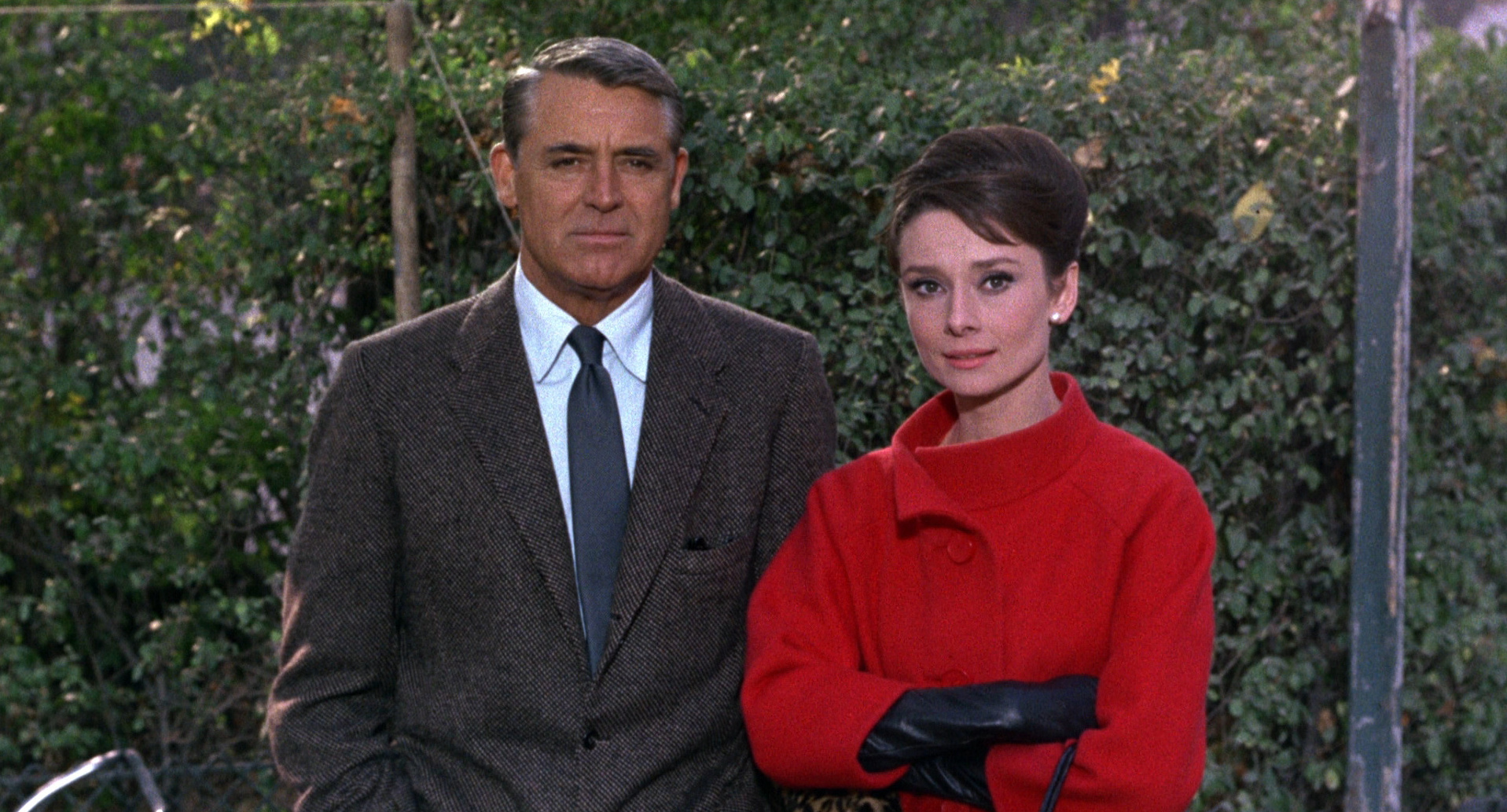 Screenshot of Cary Grant and Audrey Hepburn from the film Charade